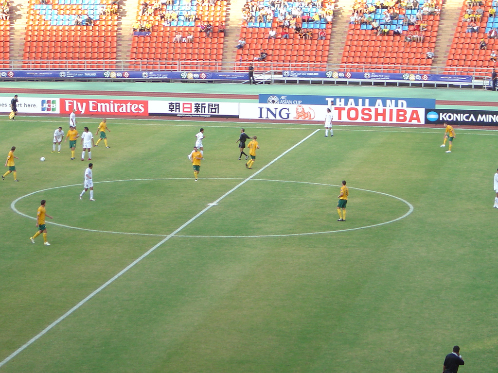 During the Iraq V Australia match. Iraq won 3:1